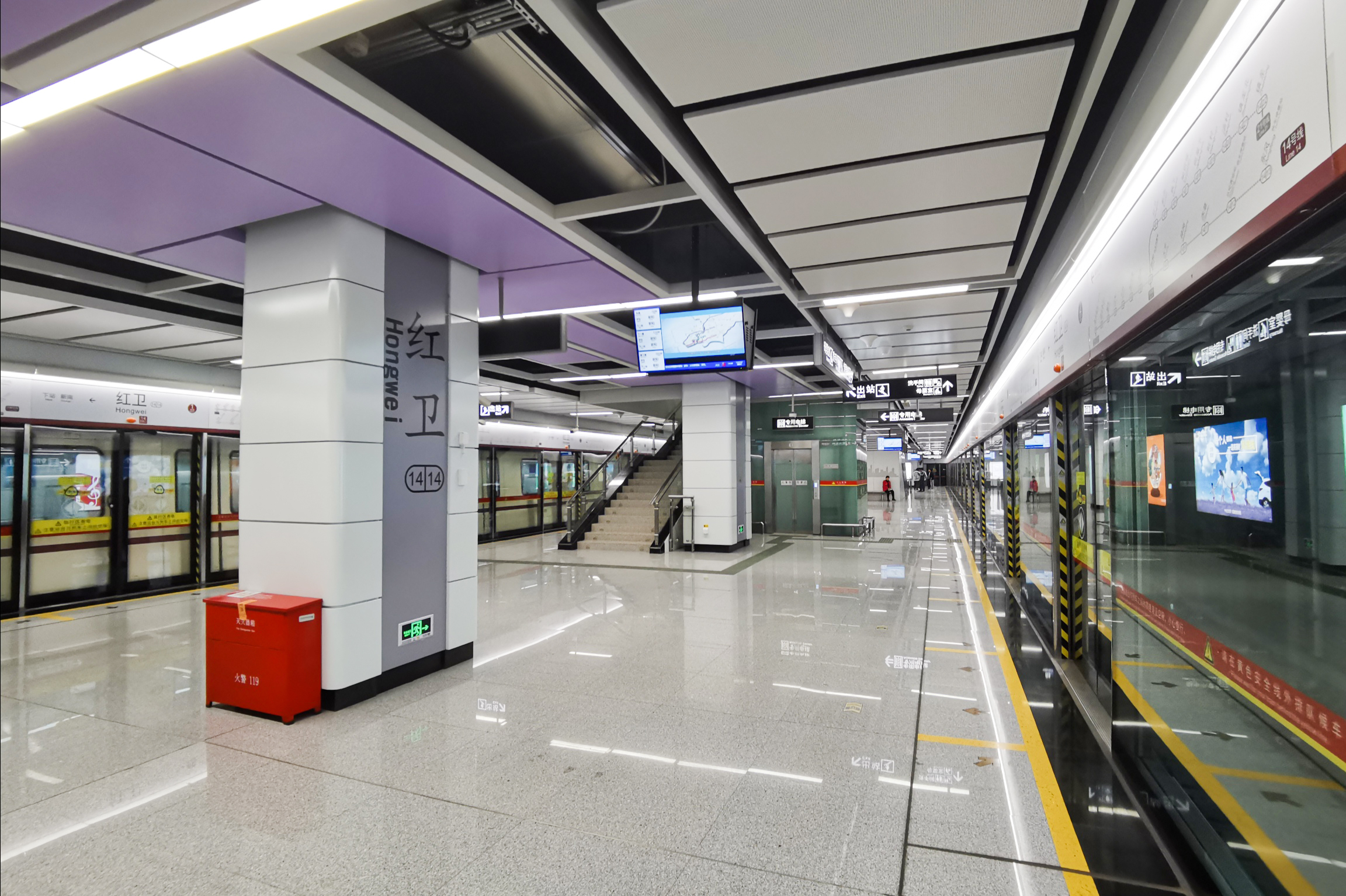 广州地铁红卫站